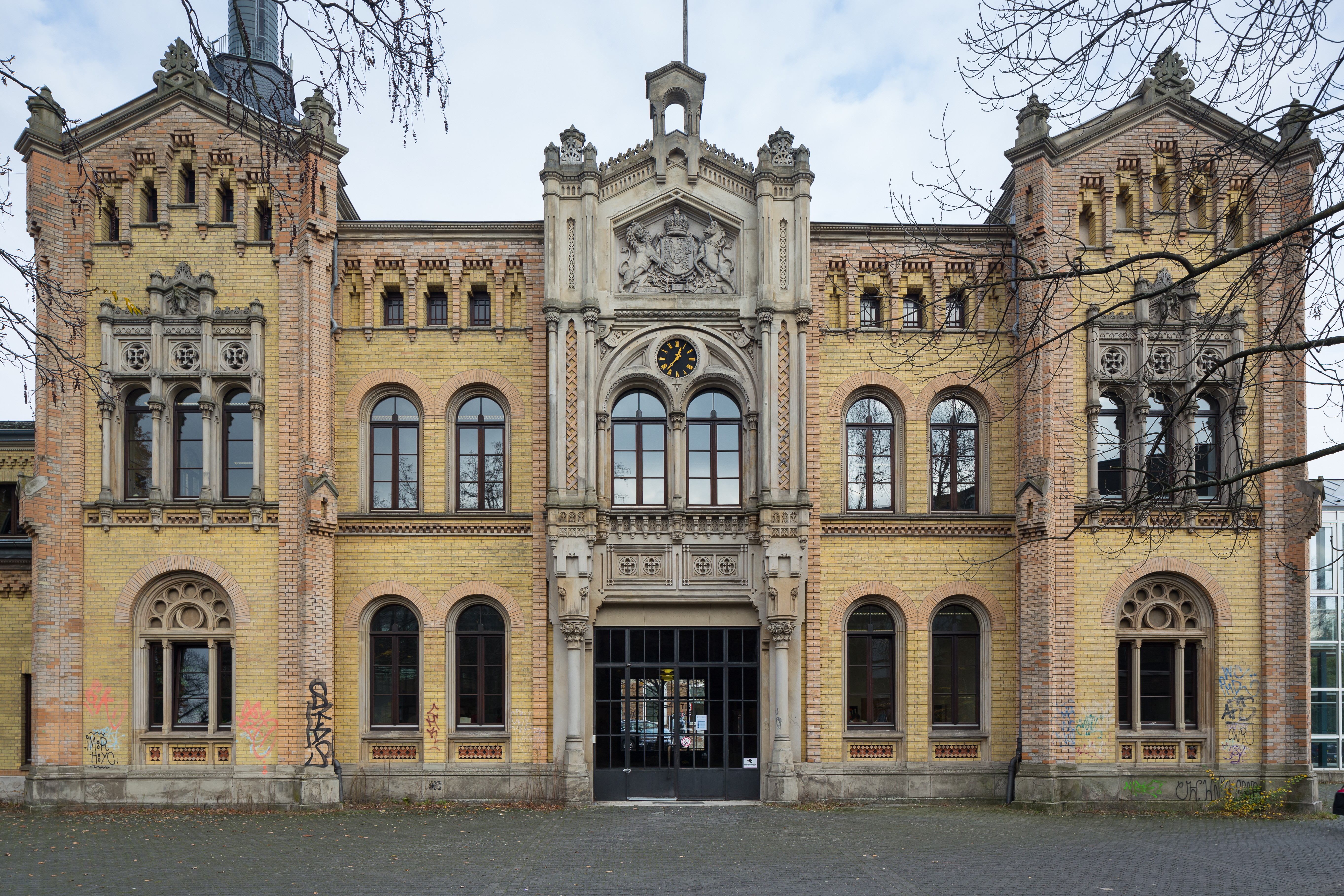 Former Marstall building (royal stables) used by Leibniz Universitaet Hannover, located at Welfengarten in Nordstadt district of Hanover, Germany.